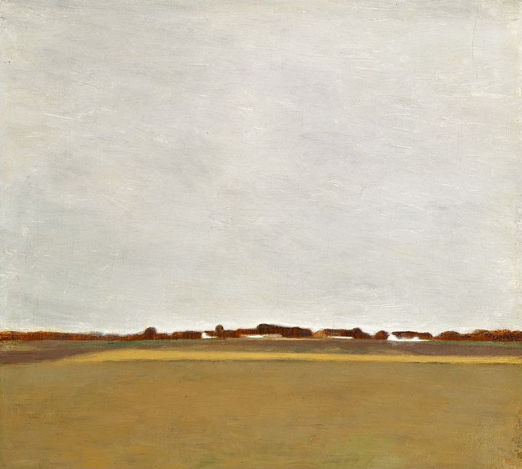 Rainy summer landscape from Virum near Frederiksdal. In the foreground yellow and green fields. In the background white farmhouses and trees under a sky heavy with rain.